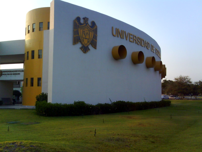 Faculty of Law at the University of Colima.